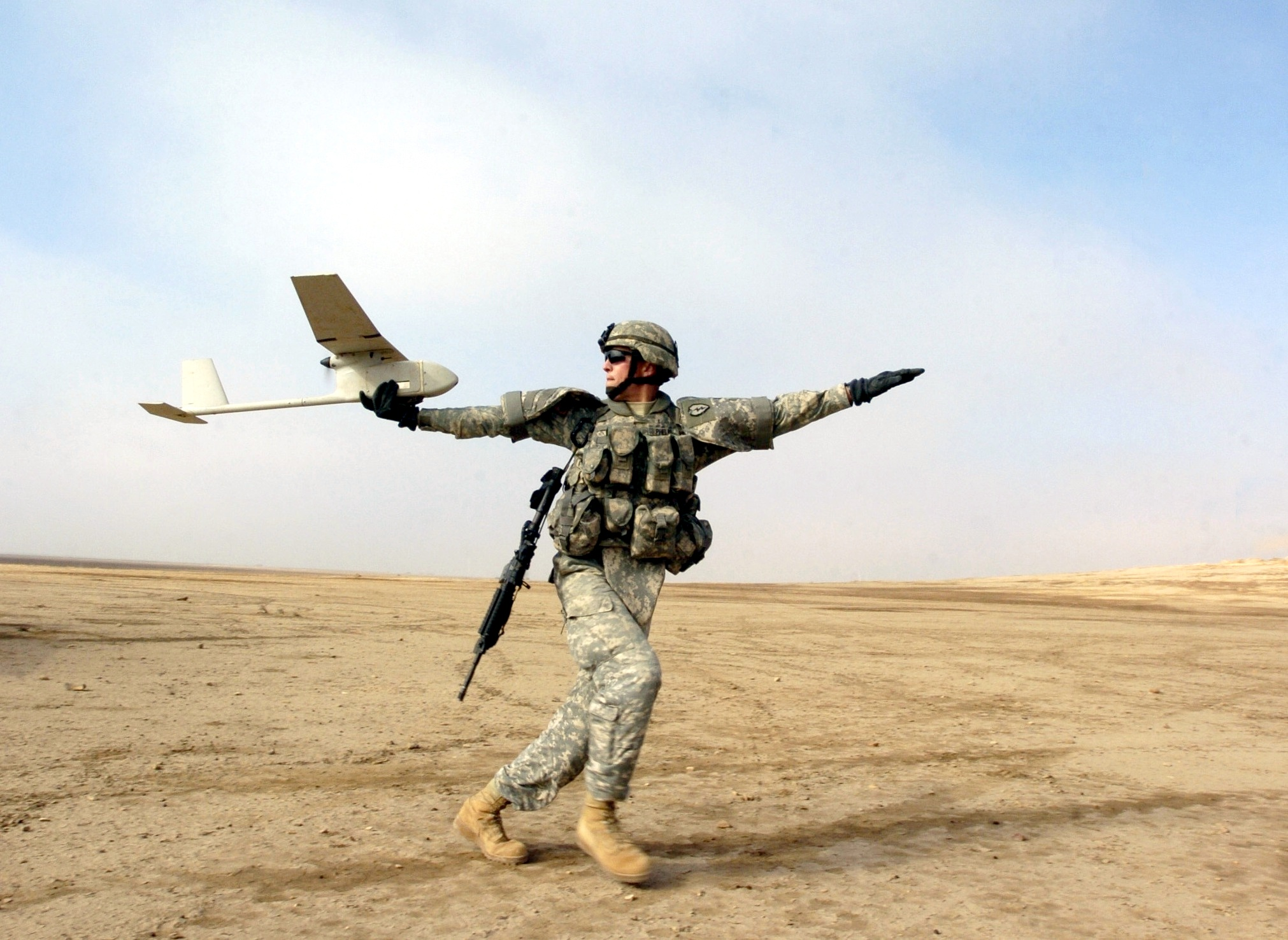 Up, Up and Away. Sgt. Dane Phelps, from 2nd Battalion, 27th Infantry Regiment, 25th Infantry Division prepares to launch the Raven unmanned aerial vehicle during a joint U.S. and Iraqi cordon and search operation in Patika Province, Iraq.